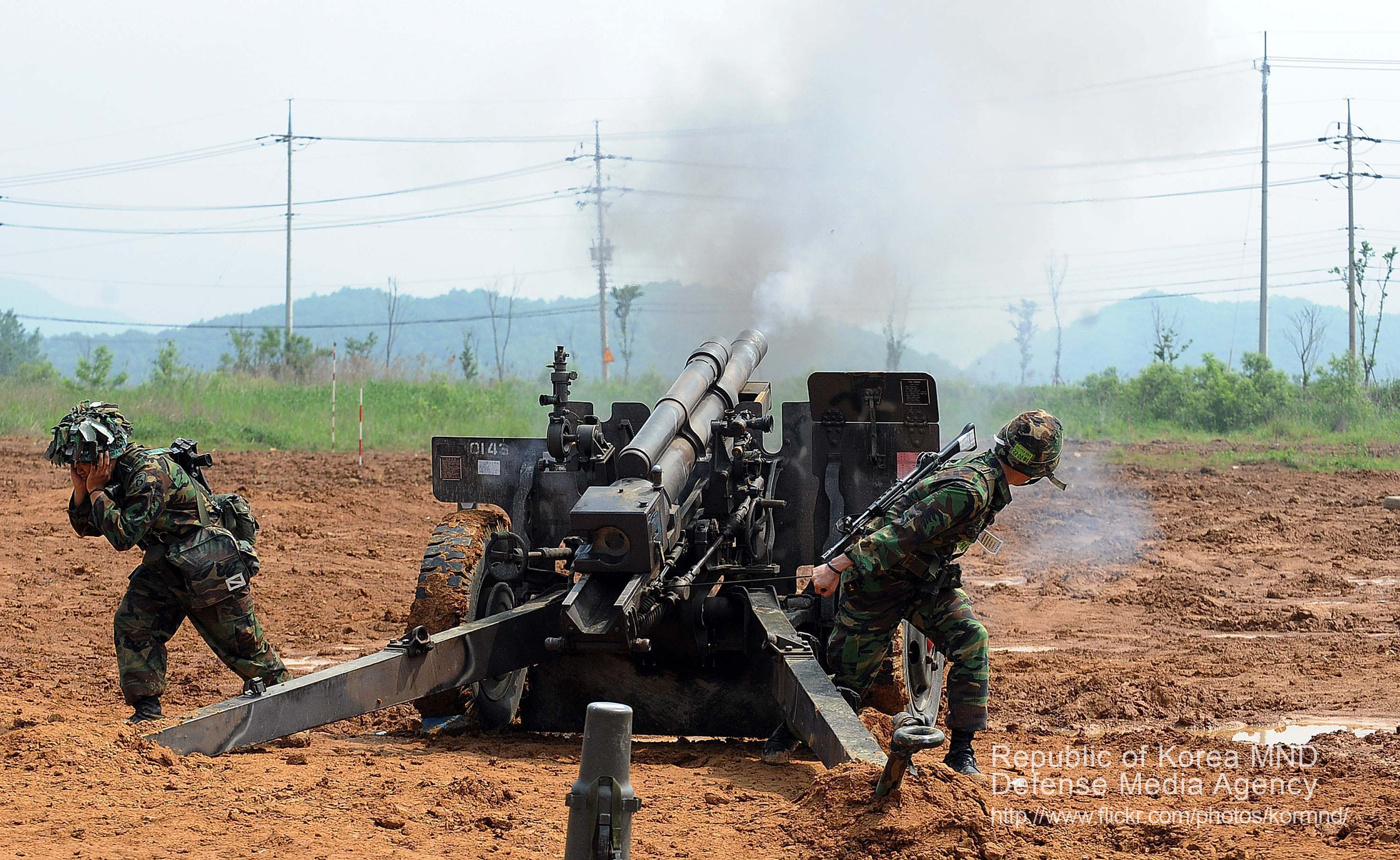 2011 국방화보 Rep. of Korea, Defense Photo Magazine 육군73사단 장병들이 '2011년 쌍용훈련'에서 105㎜ 포사격훈련을 하고 있다.